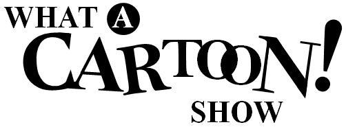 Logo of the animated cartoon variety show What a Cartoon! Show